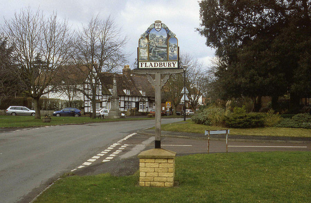 Village Sign, Fladbury Colourful village sign announcing to the world that this is Fladbury